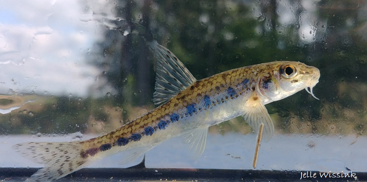 Gobio gobio